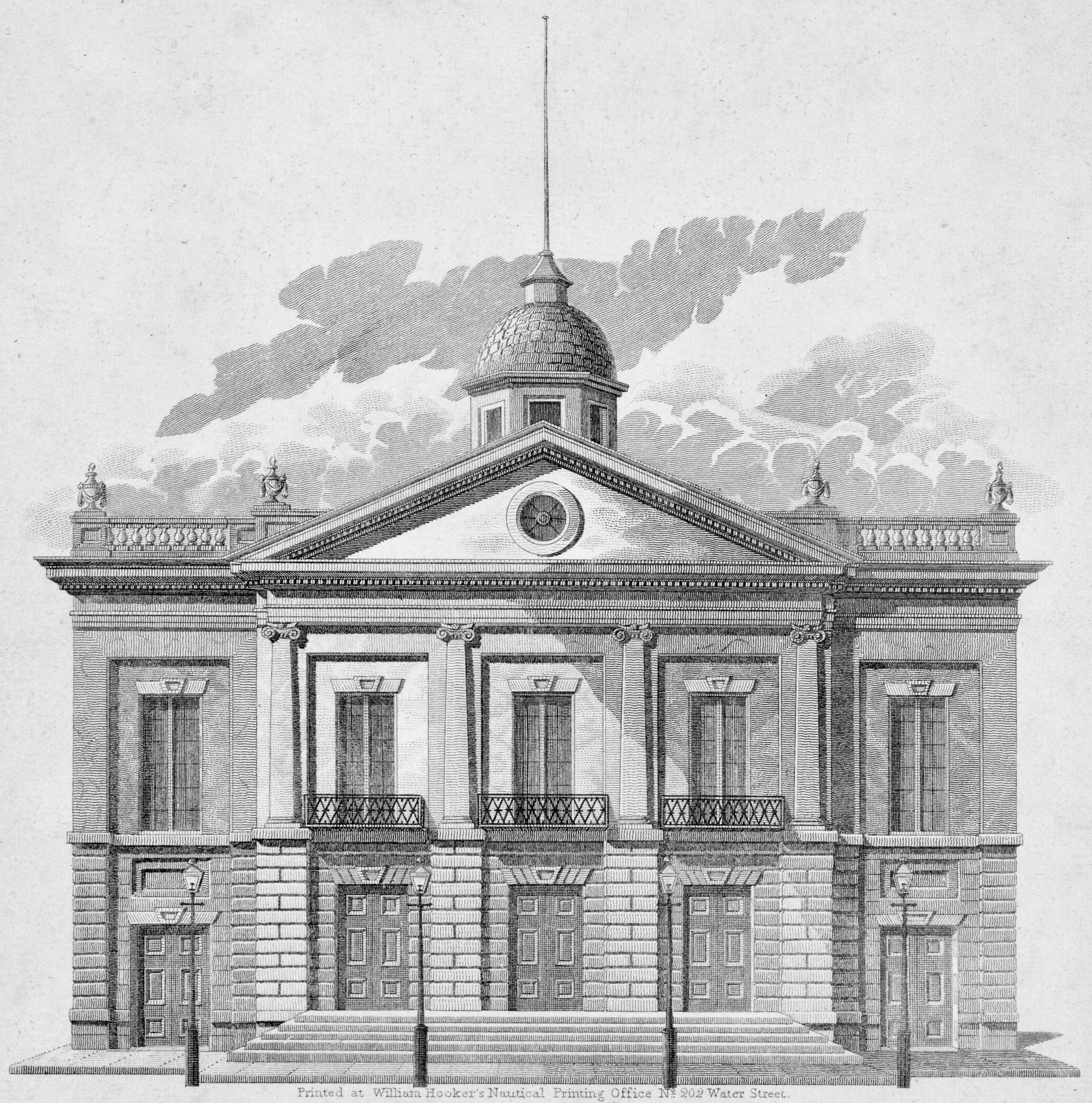 Lafayette Theatre, Laurens Street (today called West Broadway), extending to Thompson Street, between Canal Street and Grand Street